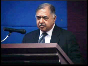 Kamal Hossain reminiscing about Abdur Razzaq at R. C. Majumdar auditorium, University of Dhaka